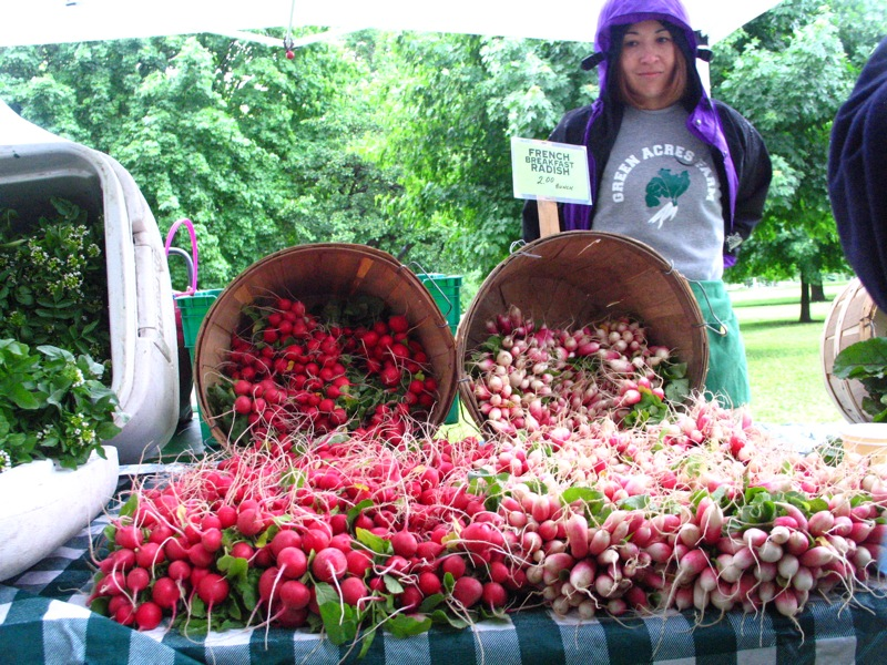 These folks sure knew how to make their food look pretty